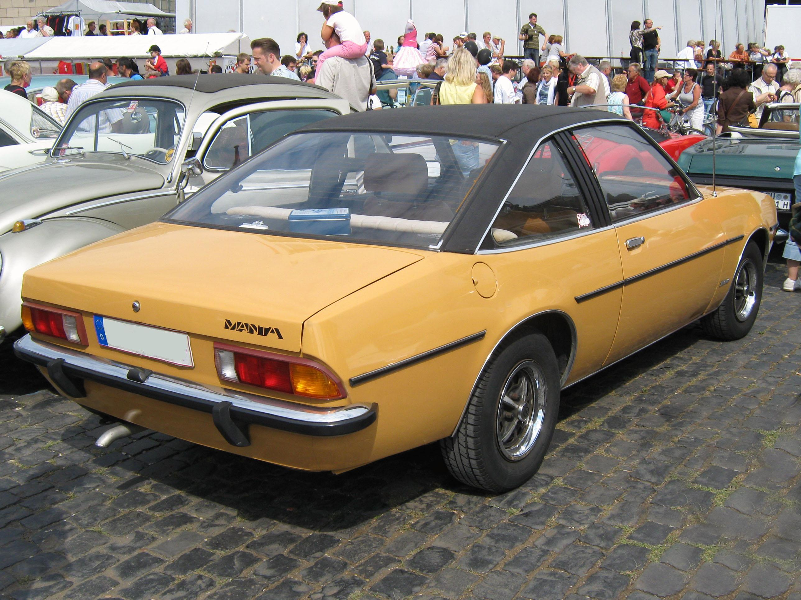 1975 Opel Manta B rear view